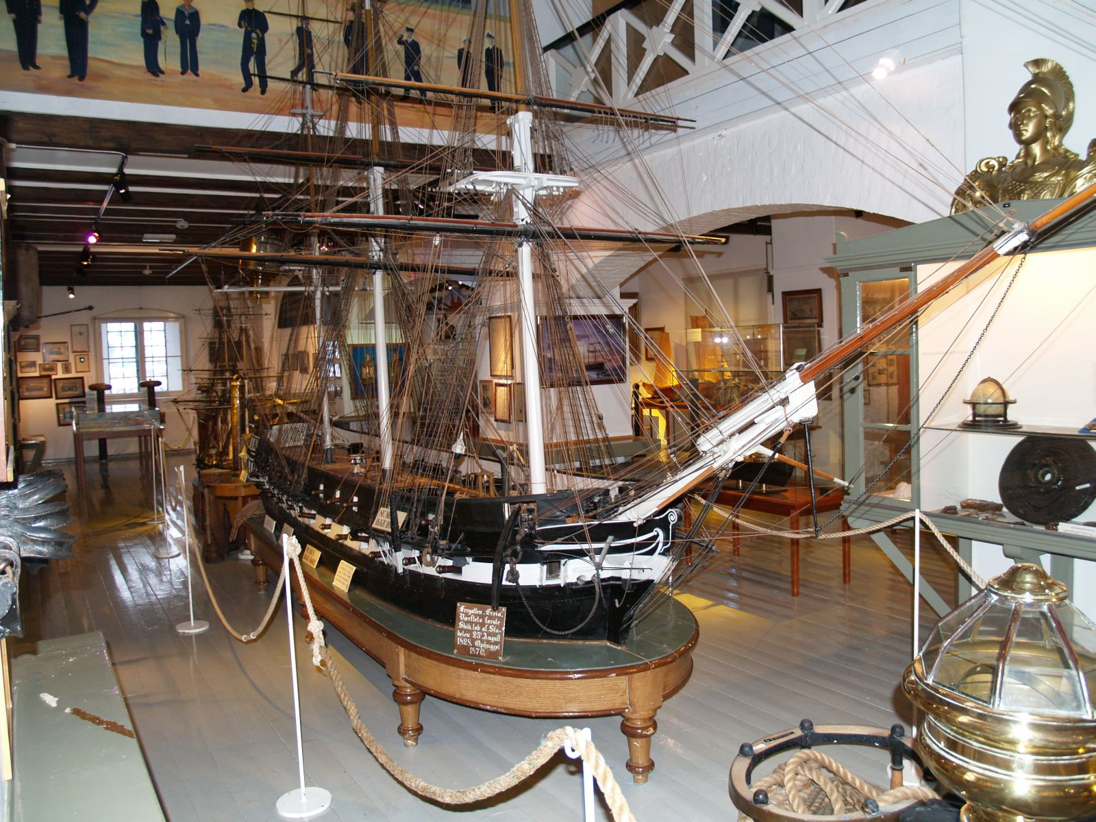 Part of the indoor exhibition of the Norwegian Naval Museum in Horten, Norway. Picture by Ulf Larsen, January 2006.